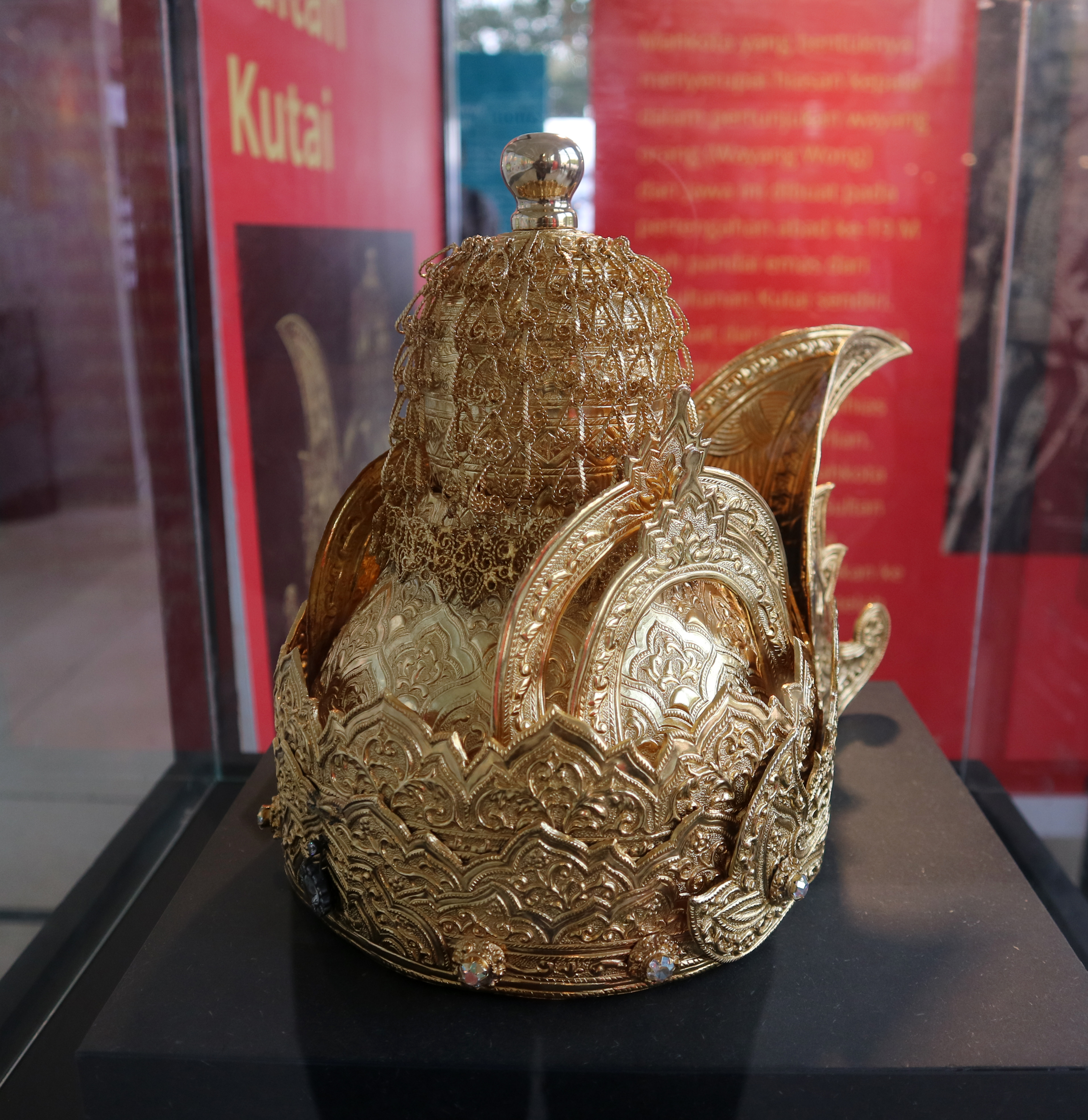 The Crown of Kutai Sultan, collection of the National Museum of Indonesia, Jakarta. The golden crown that symbolizing the power and authority of the King of Kutai, is part of the regalia of the Sultanate of Kutai Kartanegara, East Kalimantan, Indonesia. This crown was first used during the reign of Sultan Muhammad Sulaiman, reign 1845-1899. This crown is 30 cm long, 25 cm wide, and 12 cm high. Made in the mid-19th century, and originated from Kutai, East Kalimantan. This crown is designed in the classical Javanese style, which resembles a king's crown in the Wayang Wong (Wayang Orang) performance in Java. This crown was made in the mid-19th century by a goldsmith from the Kutai Sultanate itself. This crown is made of gold with forging and filigree techniques, decorated with diamonds. In the past the crown was worn by the Sultan at various royal events. The Sultanate of Kutai handed over this crown to the Indonesian National Museum in 1967. Exhibited by the Indonesian National Museum in Pekan Kebudayaan Nasional 2019 (2019 National Cultural Week), 7-13 October 2019, Istora Senayan, Jakarta.